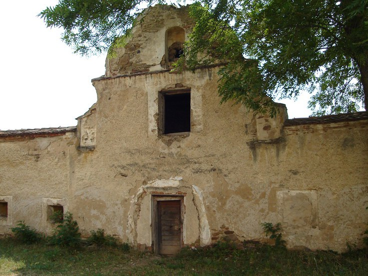 Wall of the roman catholic churc on the Michaelhill, Mereni (hu. Kézdialmás), Covasna County, Transylvania